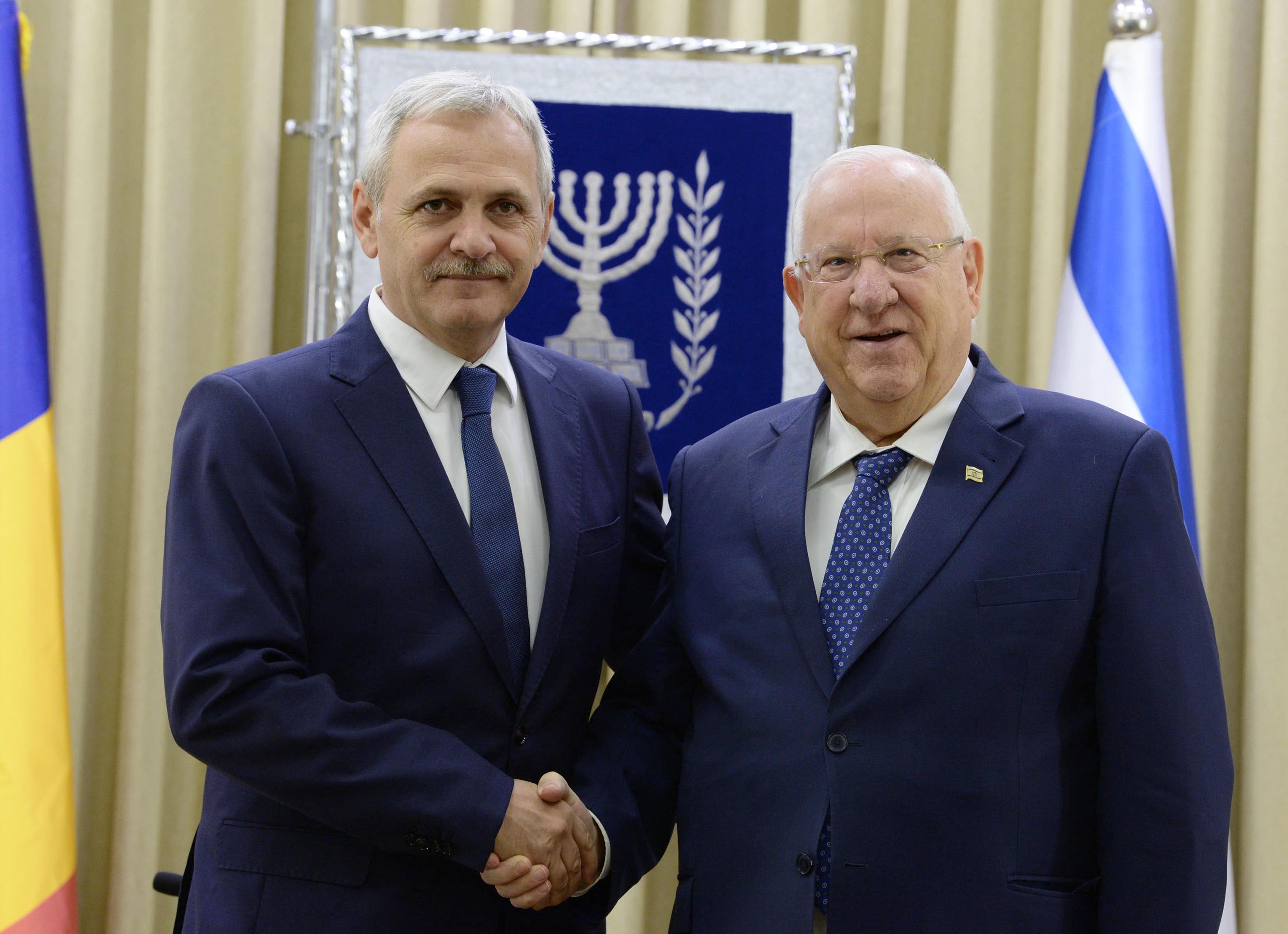 President of Israel, Reuven Rivlin, In a meeting with the head of the Romanian government, Viorica Dăncilă, as part of her official visit to Israel. Thursday, April 26, 2018. Photo Credit: Mark Neyman / GPO. Depicted people: Reuven Rivlin and Nicolae-Liviu Dragnea